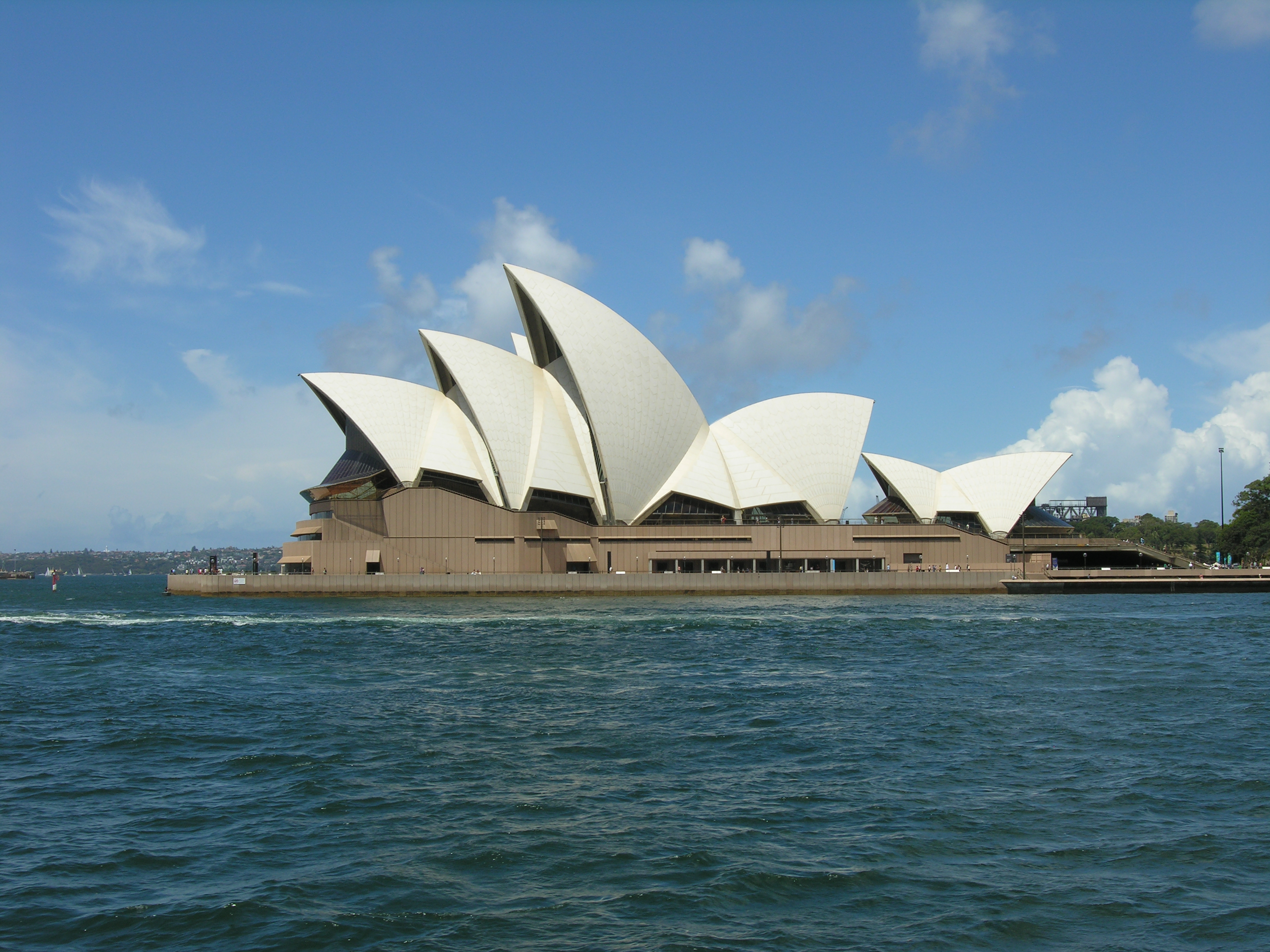 Sydney Opera House (Australia)